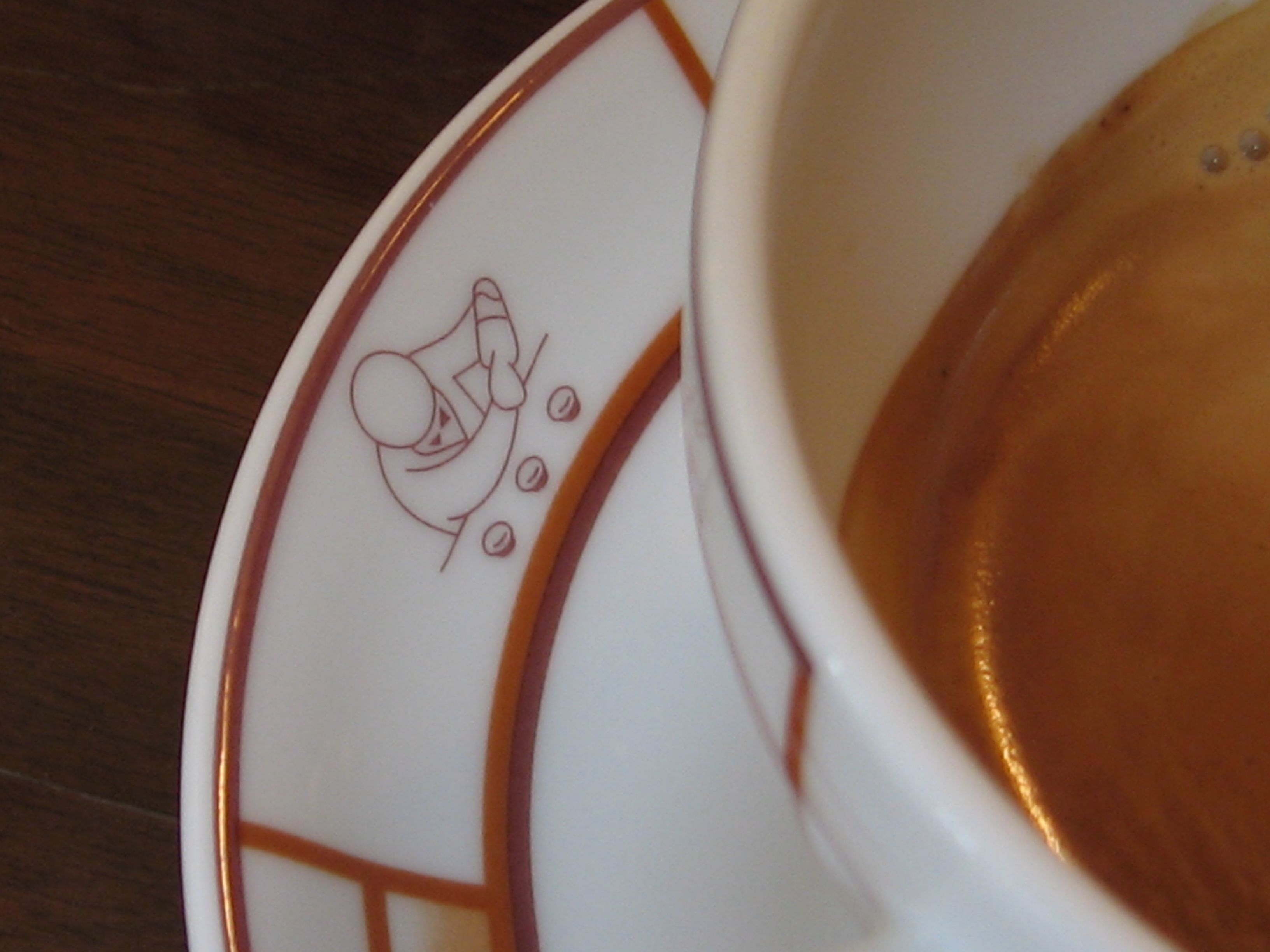 Italy - Venice, Harry's Bar, San Marco